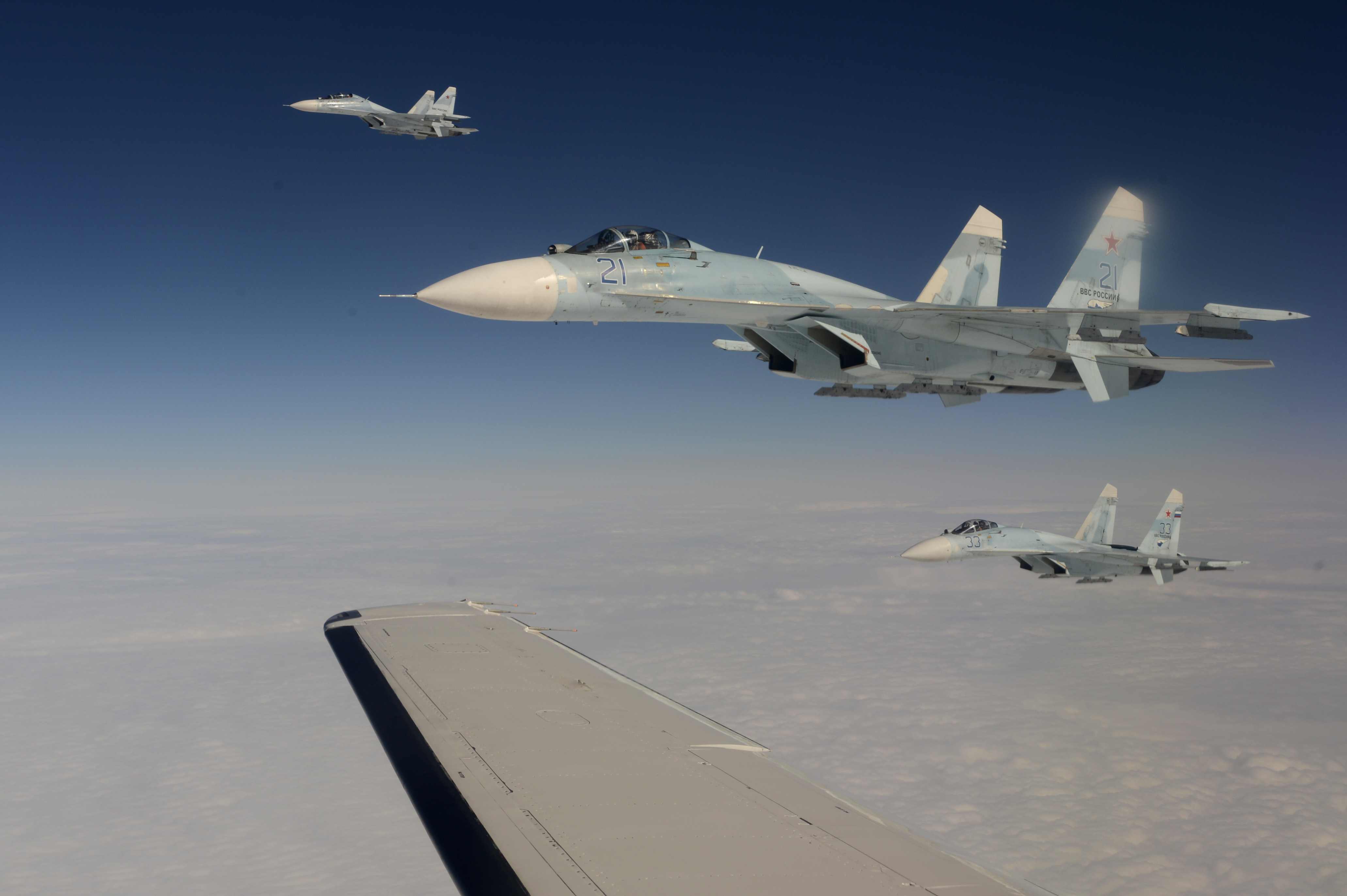 Russian Air Force Su-27 Sukhois aircraft intercept a simulated hijacked aircraft, foreground, during Vigilant Eagle 2013 at Joint Base Elmendorf-Richardson, Alaska, Aug. 27, 2013. Vigilant Eagle is an annual exercise designed to increase anti-terrorism interoperability between the Russian air force and U.S. and Canadian air forces operating under the North American Aerospace Defense Command.